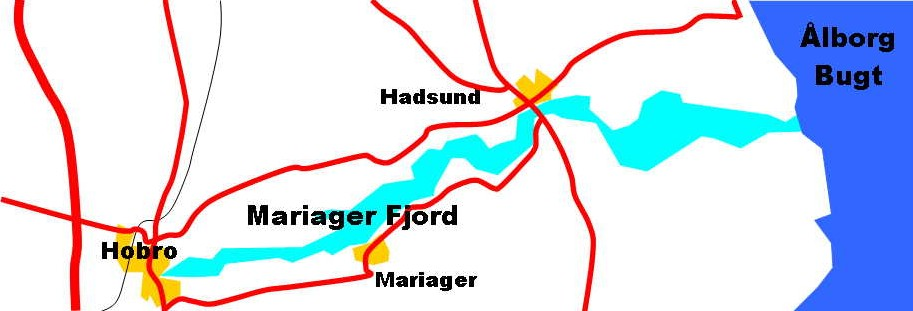 Map sketch of Mariager Fjord, Denmark with major towns and roads.